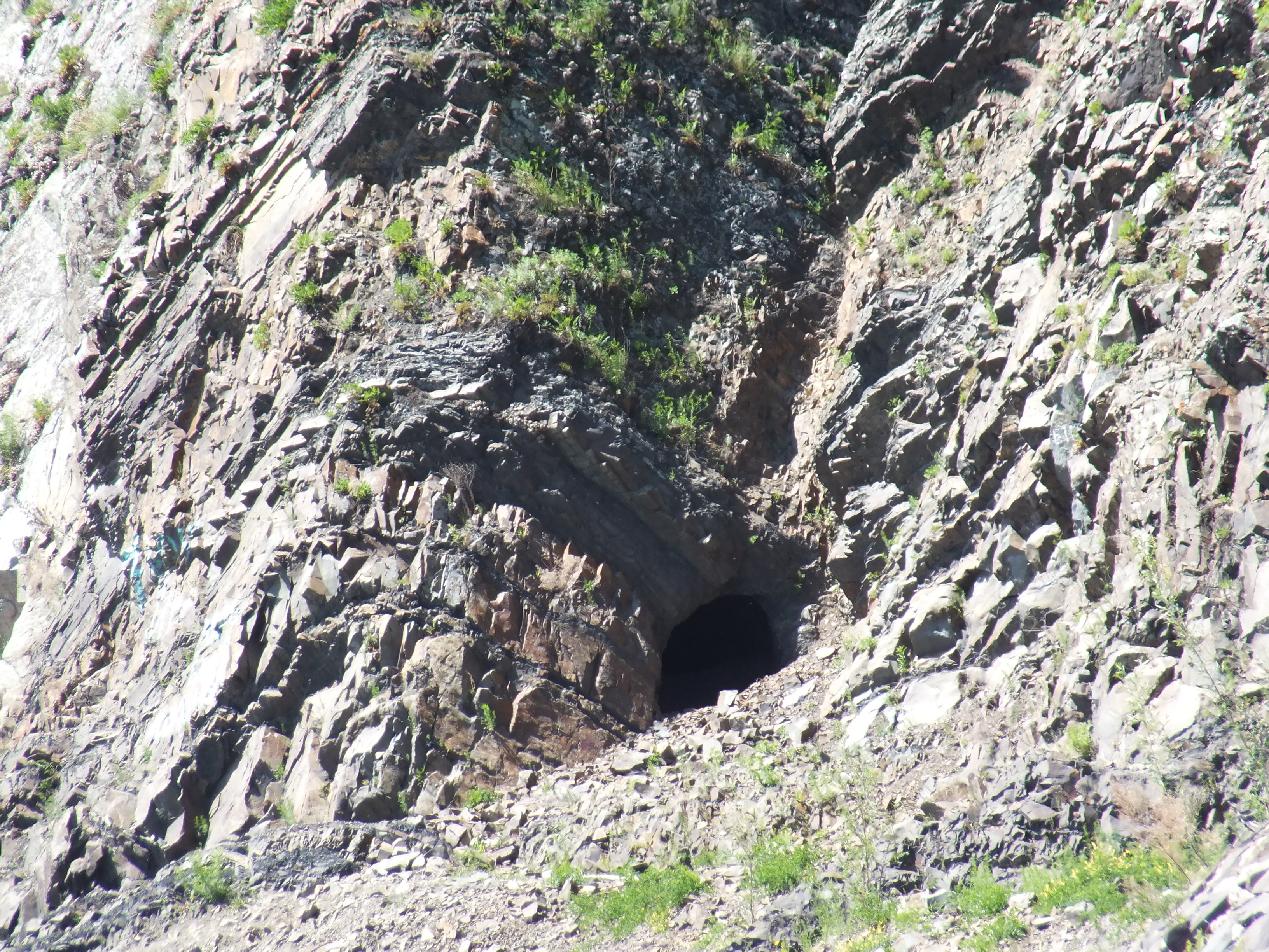 Malmyzh Nanayskiy rayon